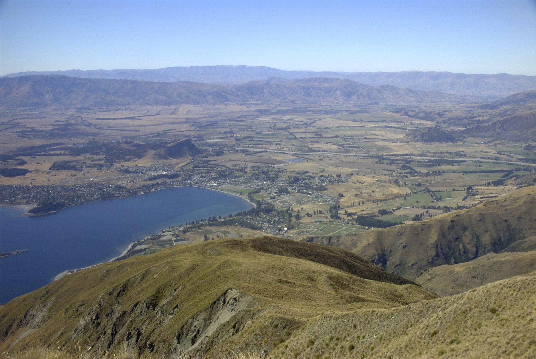 Picture of Lake Wanaka taken from the top of Mount Roy.